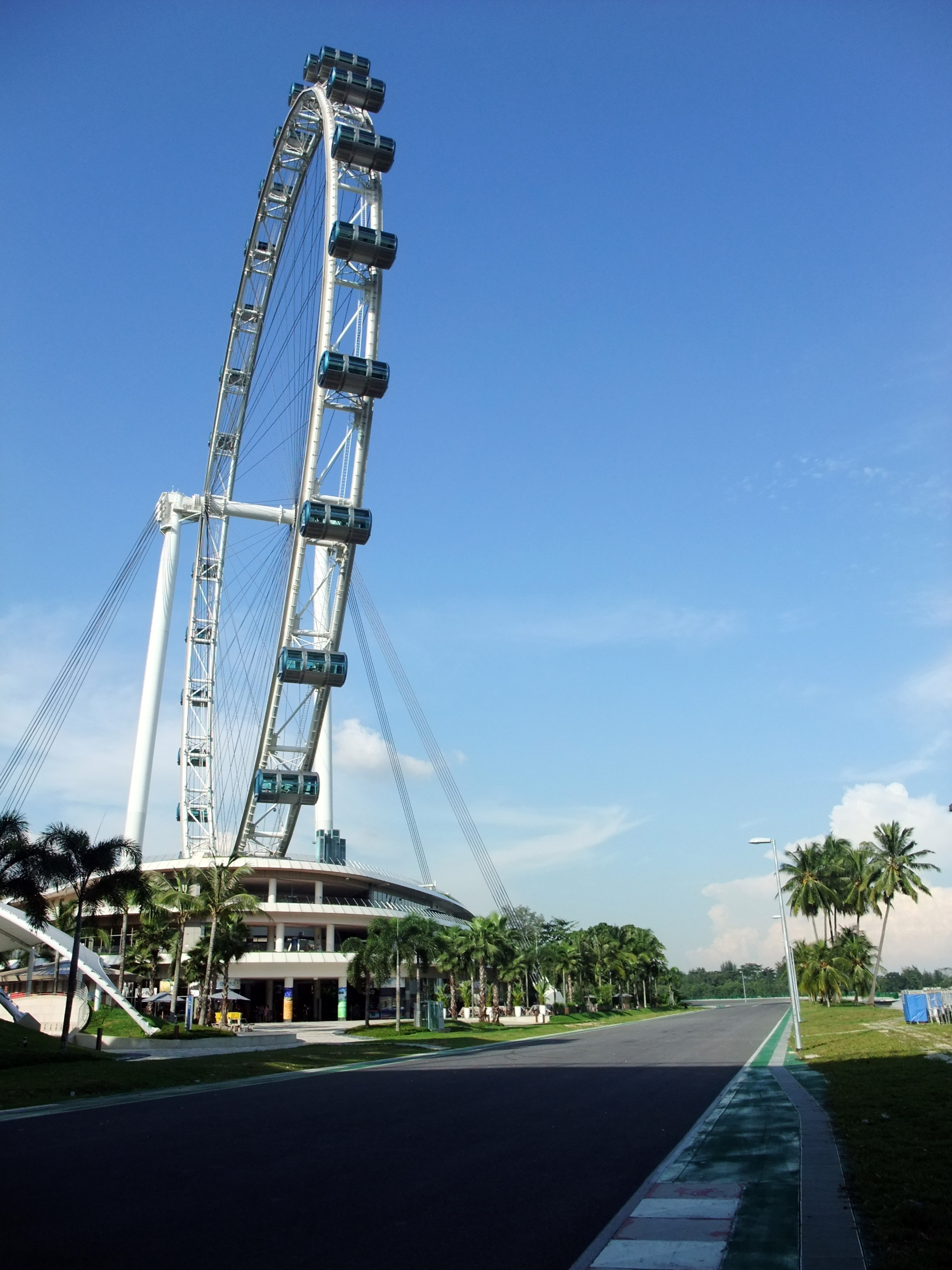 Singapore Flyer and racetrack